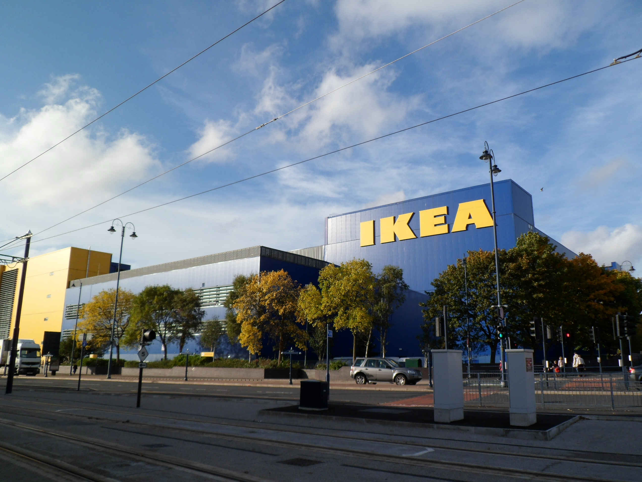 Ashton-under-Lyne in Greater Manchester, England: IKEA